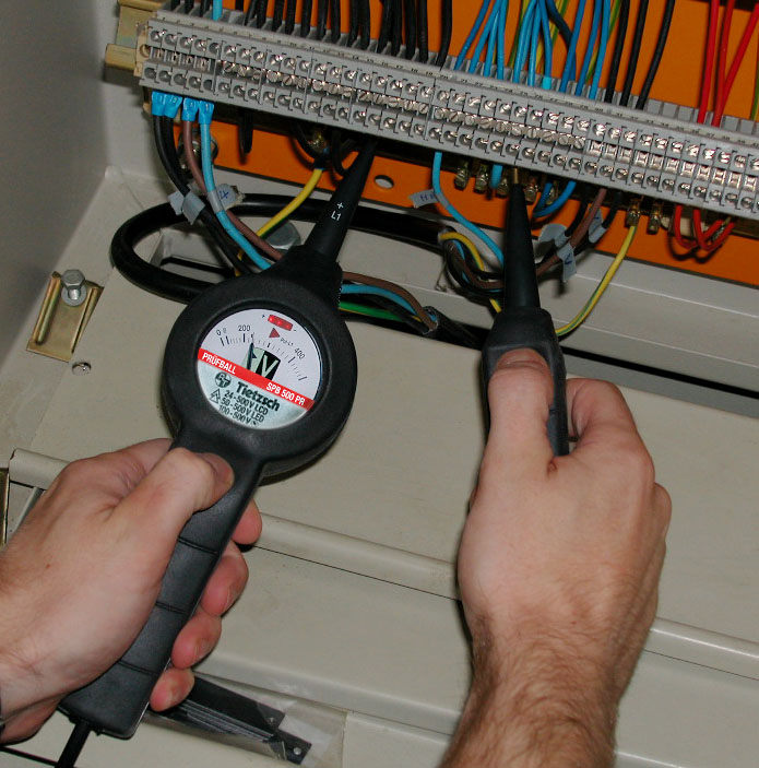 Voltagetester